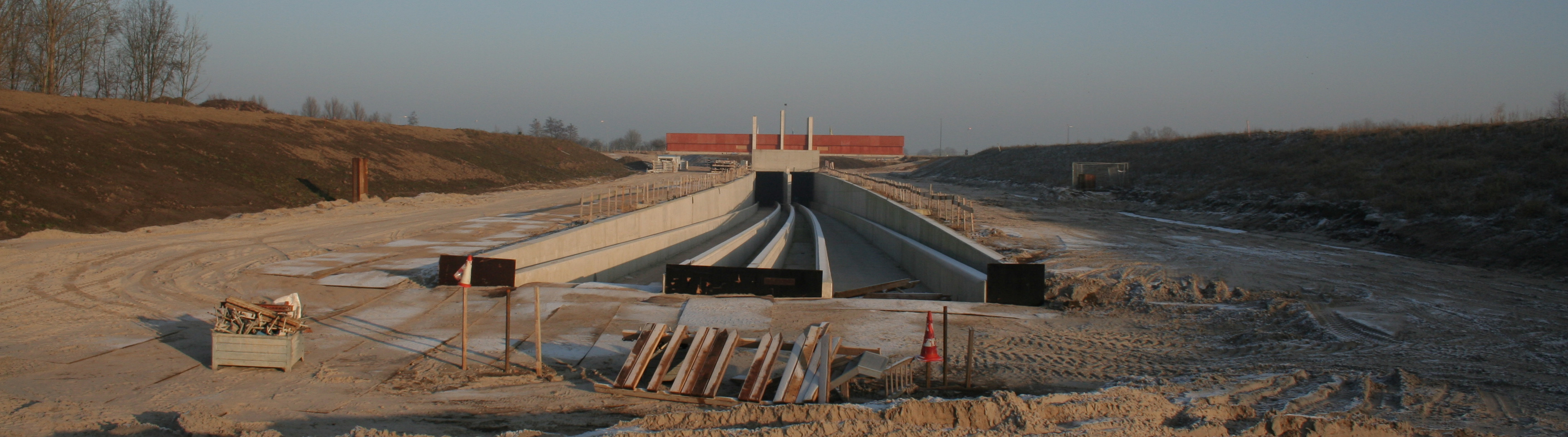 Tunnel Drontermeer in aanbouw